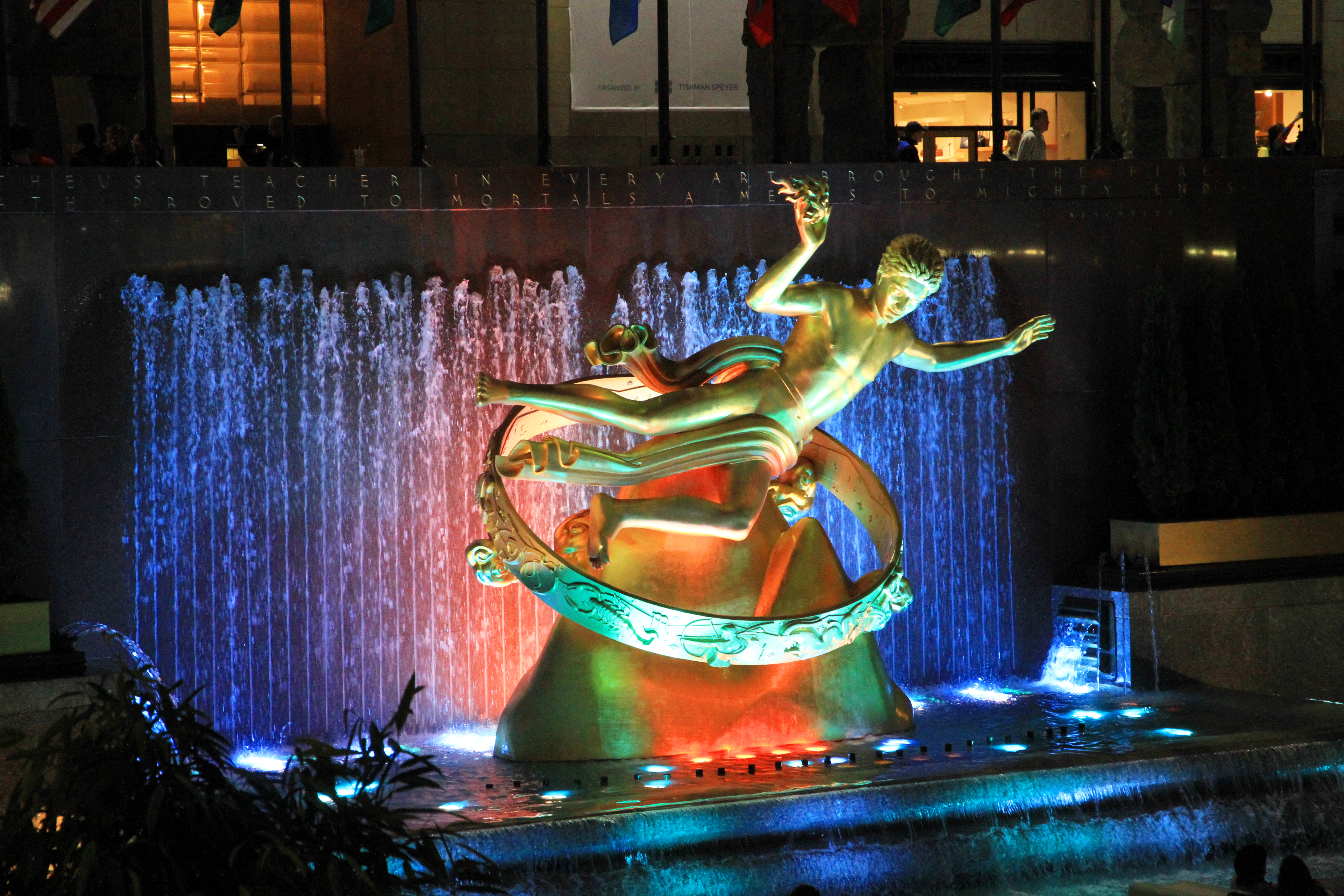 Titan Prometheus